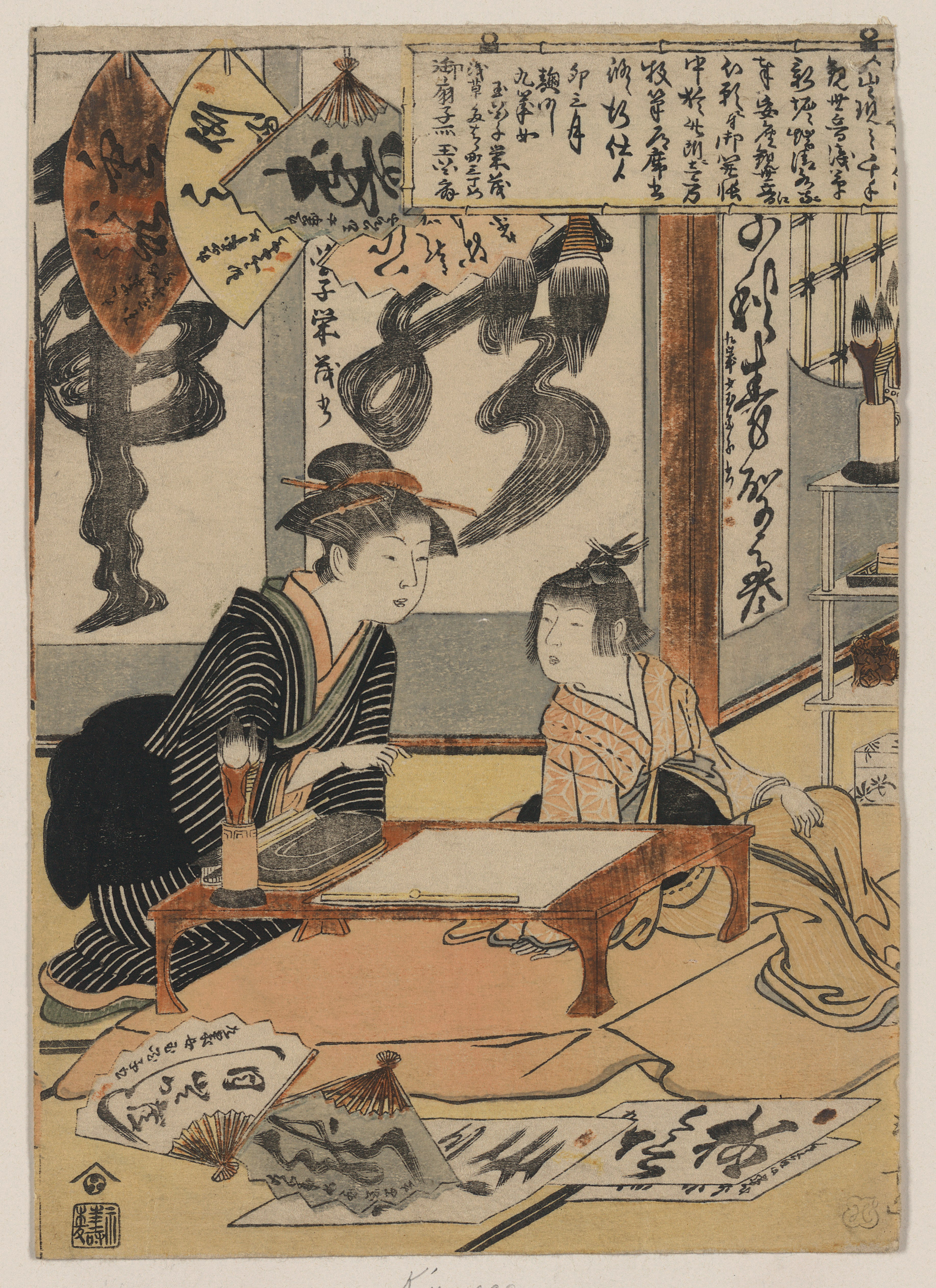 Title: Gyokkashi eimo Abstract/medium: 1 print : woodcut, color ; 22.1 x 15.5 cm.